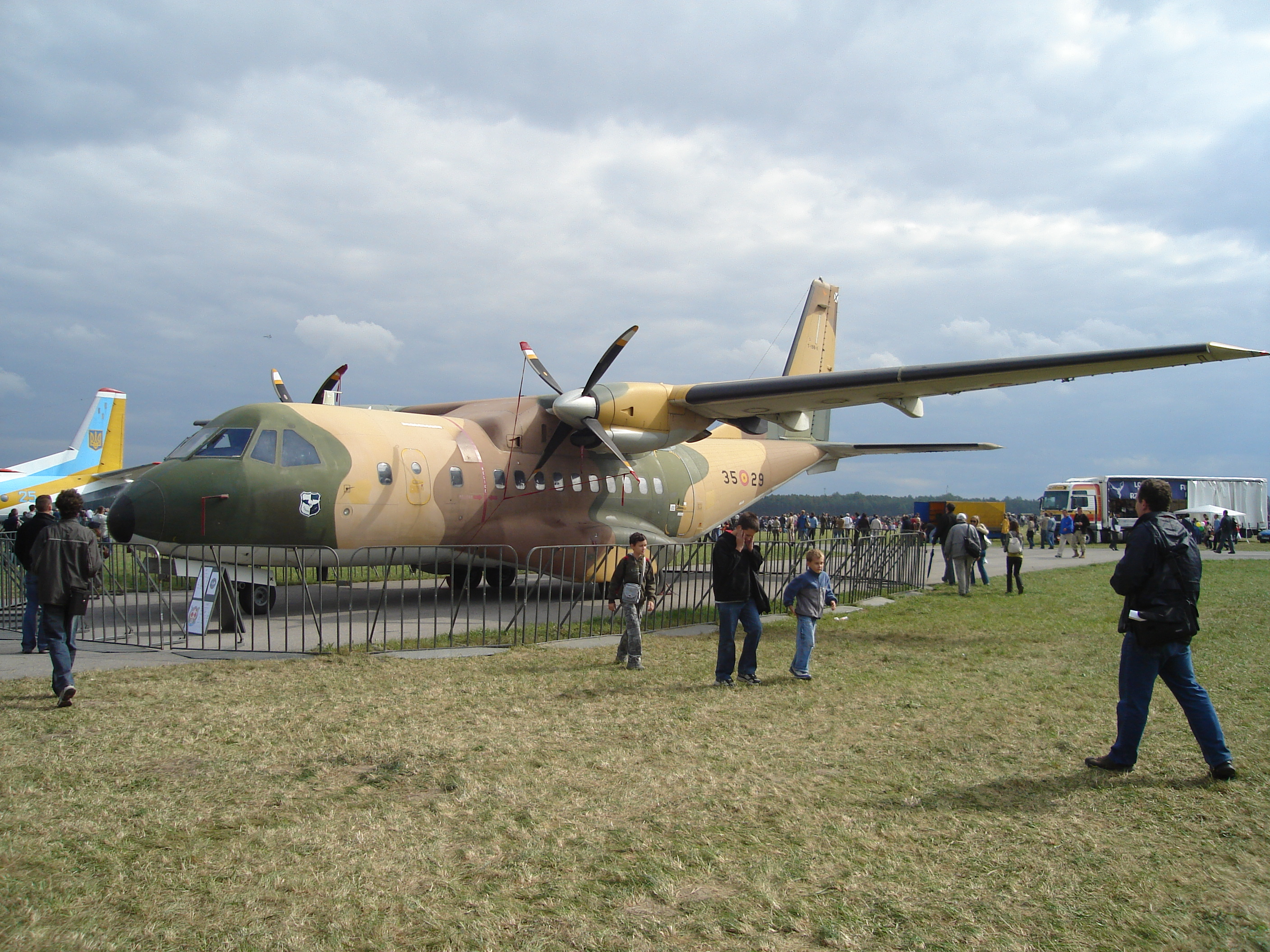 Picture of CASA CN 235, Radom Air Show 2007